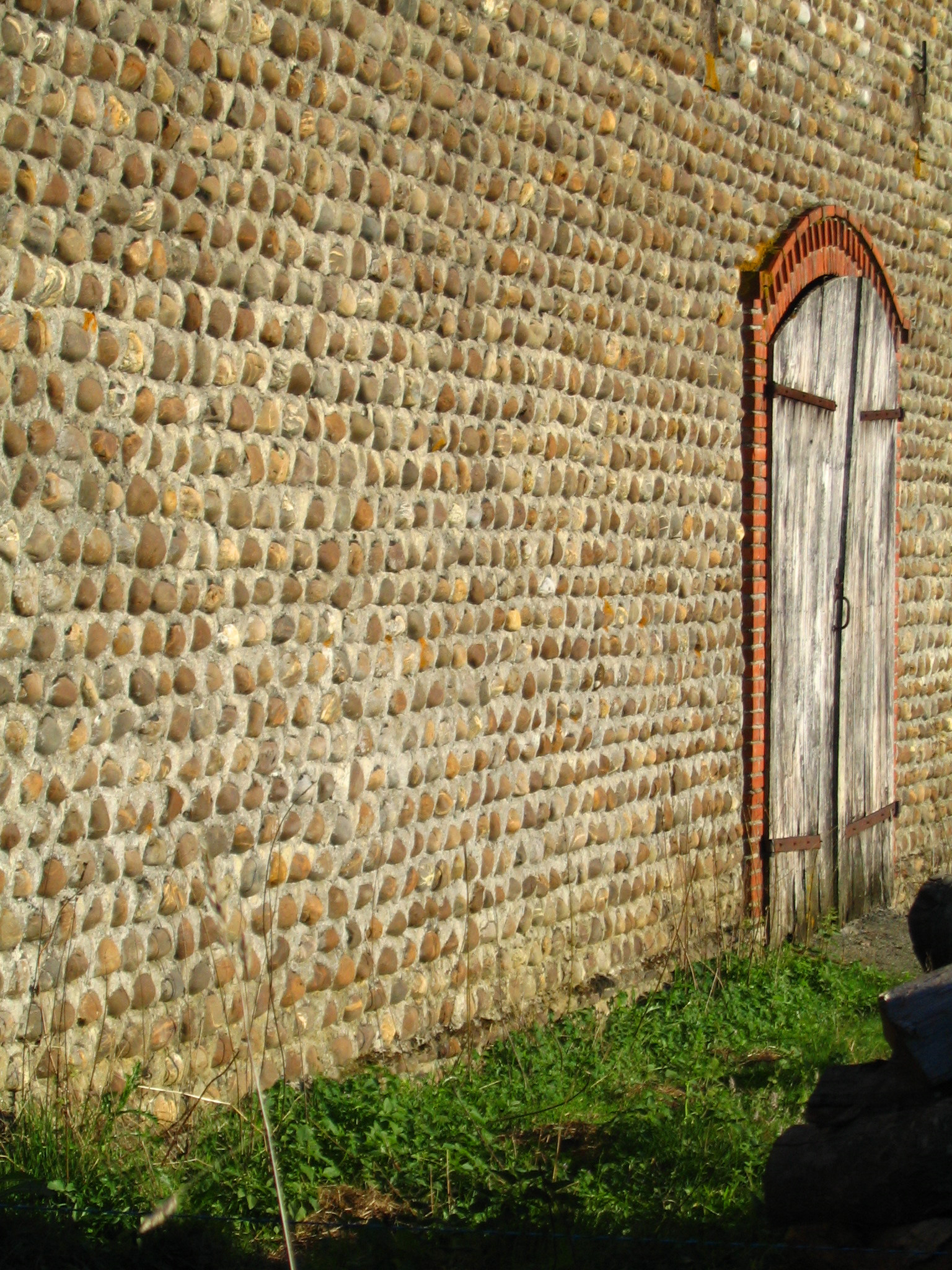 Mur de maison béarnaise - Navailles-Angos, France Detail of a stone wall in the French Pyrenees. Auteur/author: P.Charpiat - 2006